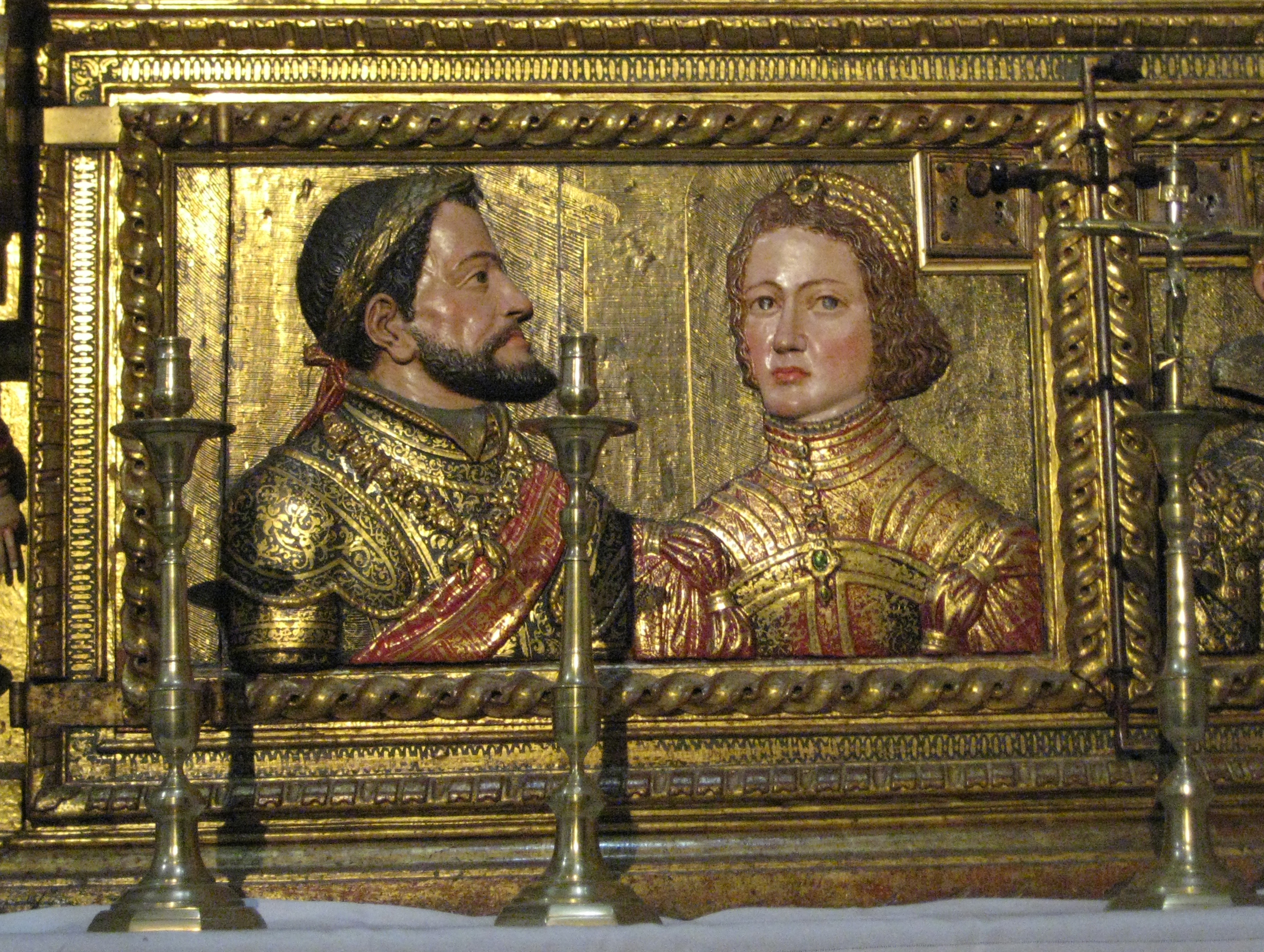 Reliquary altar, right. Sculptor Alonso de Mena 1632. Capilla Real, Granada. Panel with Carlos V and Isabel of Portugal.